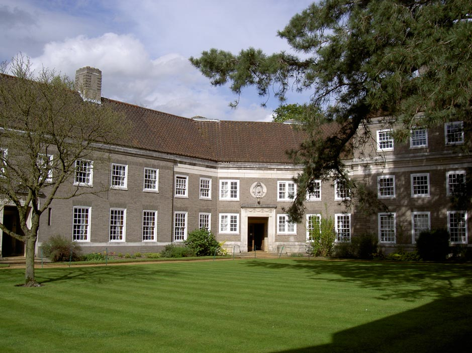 Clare Memorial Court, Clare College, Cambridge. en:1923-34 by Giles Gilbert Scott. Taken on April 27, en:2005.